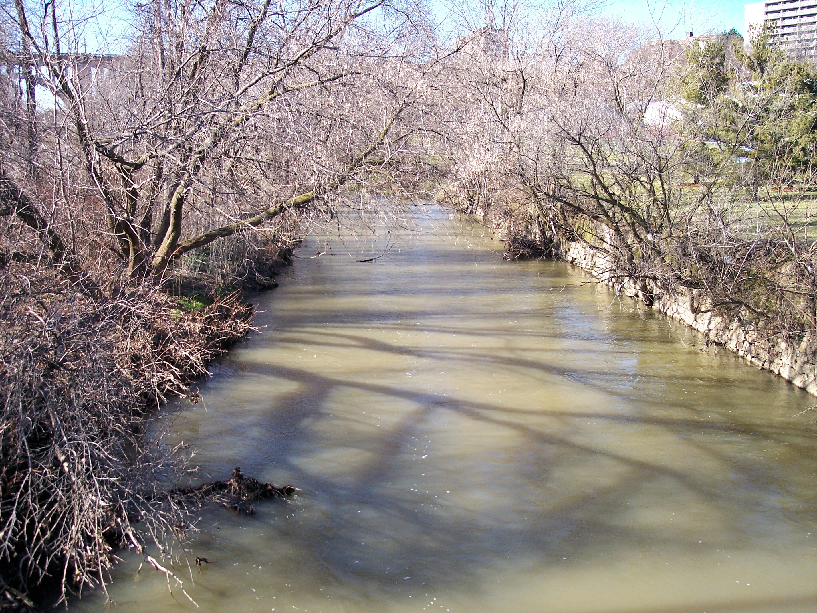 Little Lehigh Creek in Allentown, Pennsylvania, as viewed upstream from Lehigh Street.